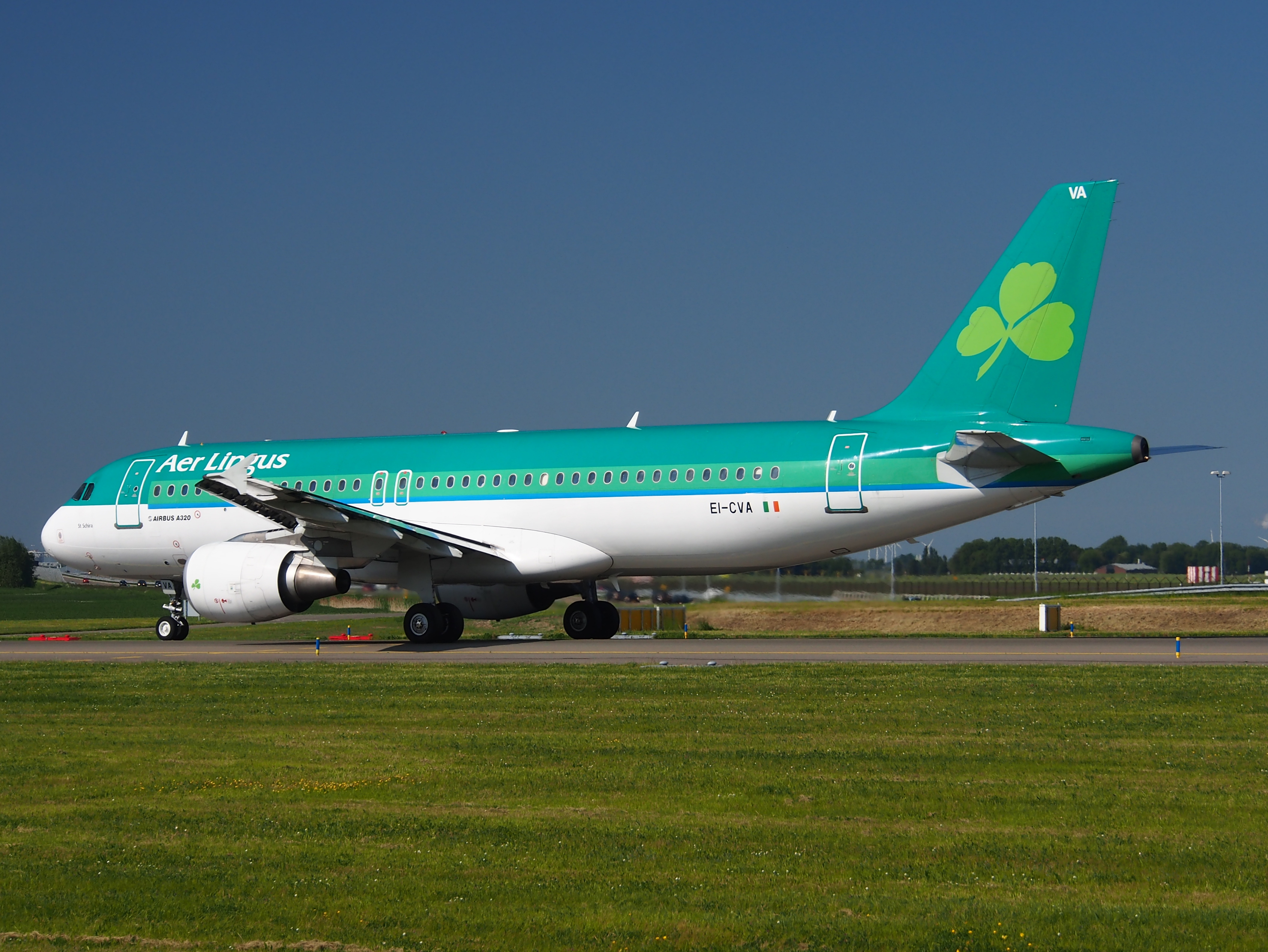 Photographed at Schiphol (AMS - EHAM), The Netherlands.